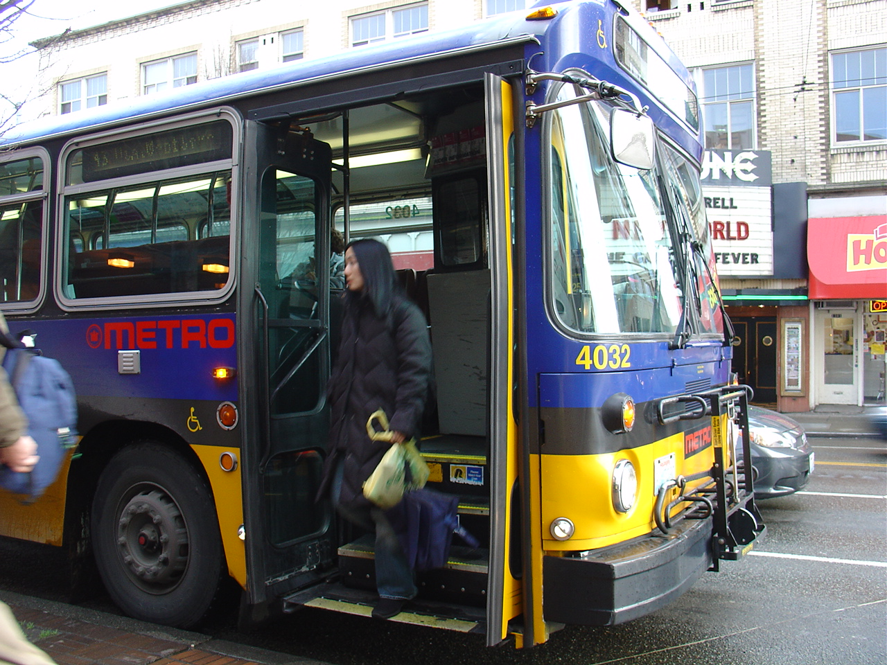 MAN trolleybus of King County Metro in Seattle's University District. Built in 1987, retired in 2006.